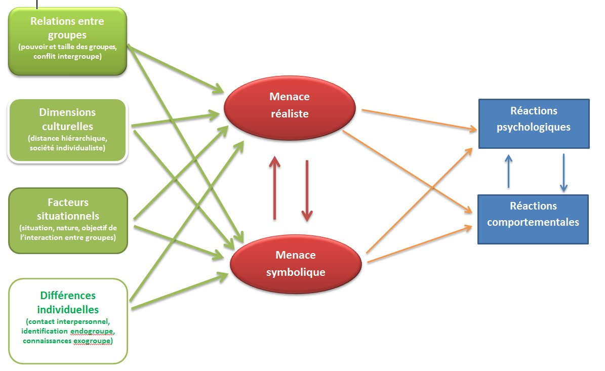 Modèle de la théorie de la menace intégrée de Stephan et Renfro